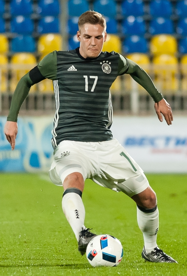 Max Christiansen